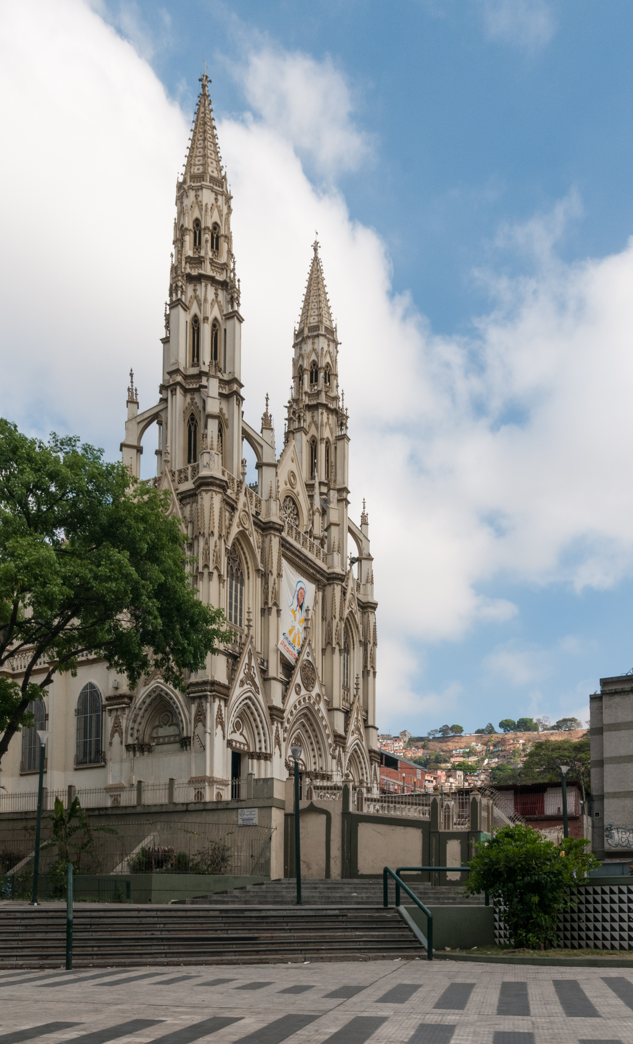 Church in Caracas